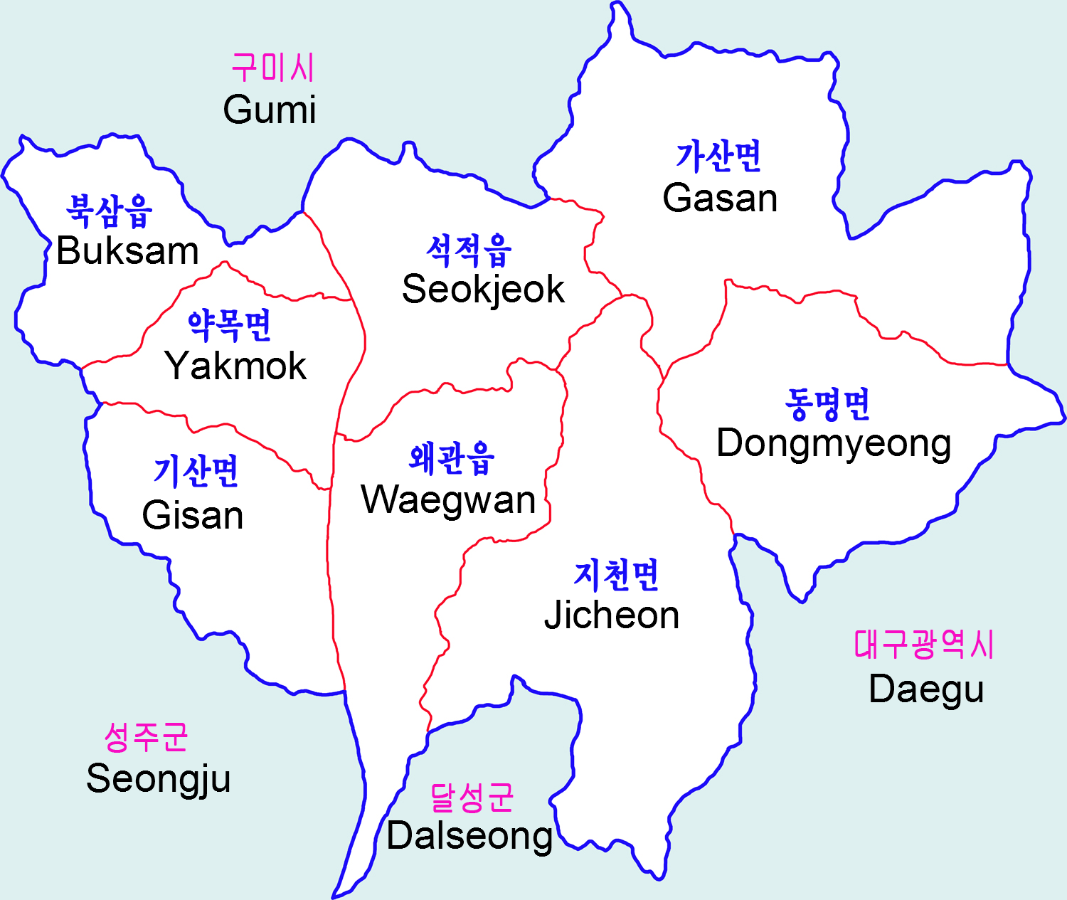 Administration map of Chilgok-gun